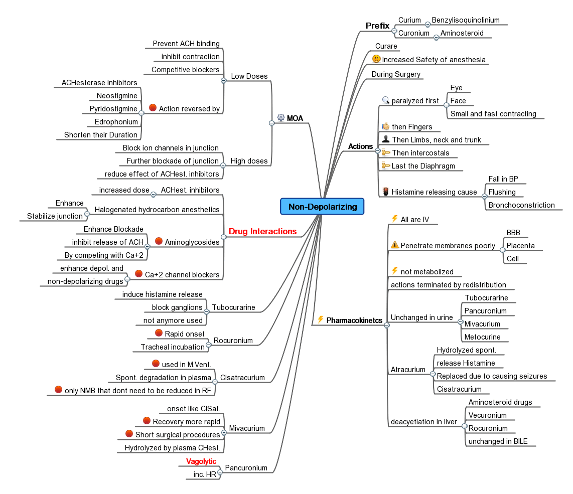 Mind map summarizing of Neuromuscular Non-depolarizing agents, to requst a mind map please see my page on wikipedia Madhero88